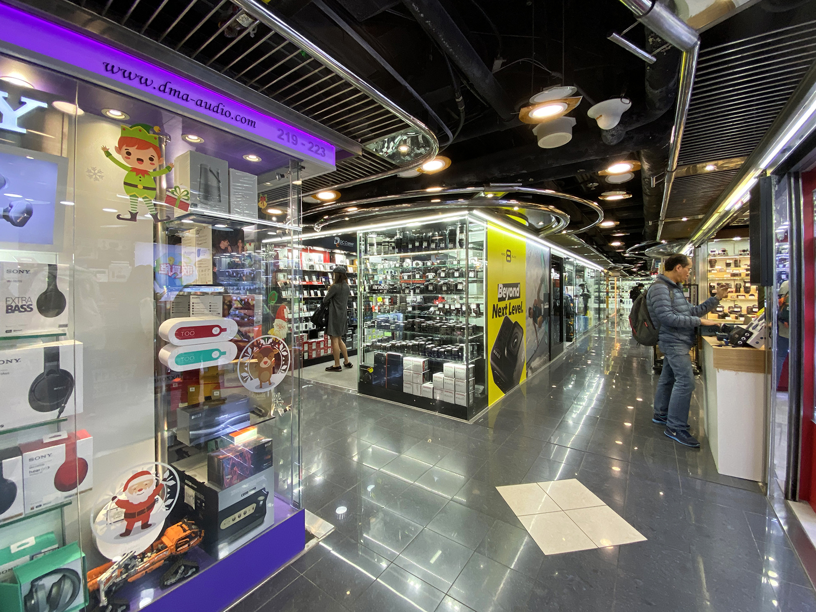 Chung Kiu Commercial Building Sim City Level 2